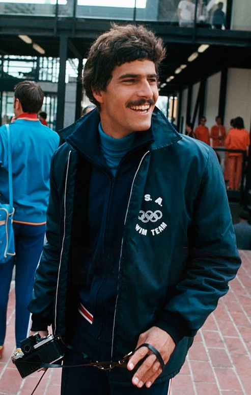 Great swimming champion and winner of seven gold olympic medals, the american Mark Spitz, is doing a tour into the Olympic village with his camera, smiling towards other athletes and photographers. Munich (Germany), September 1972